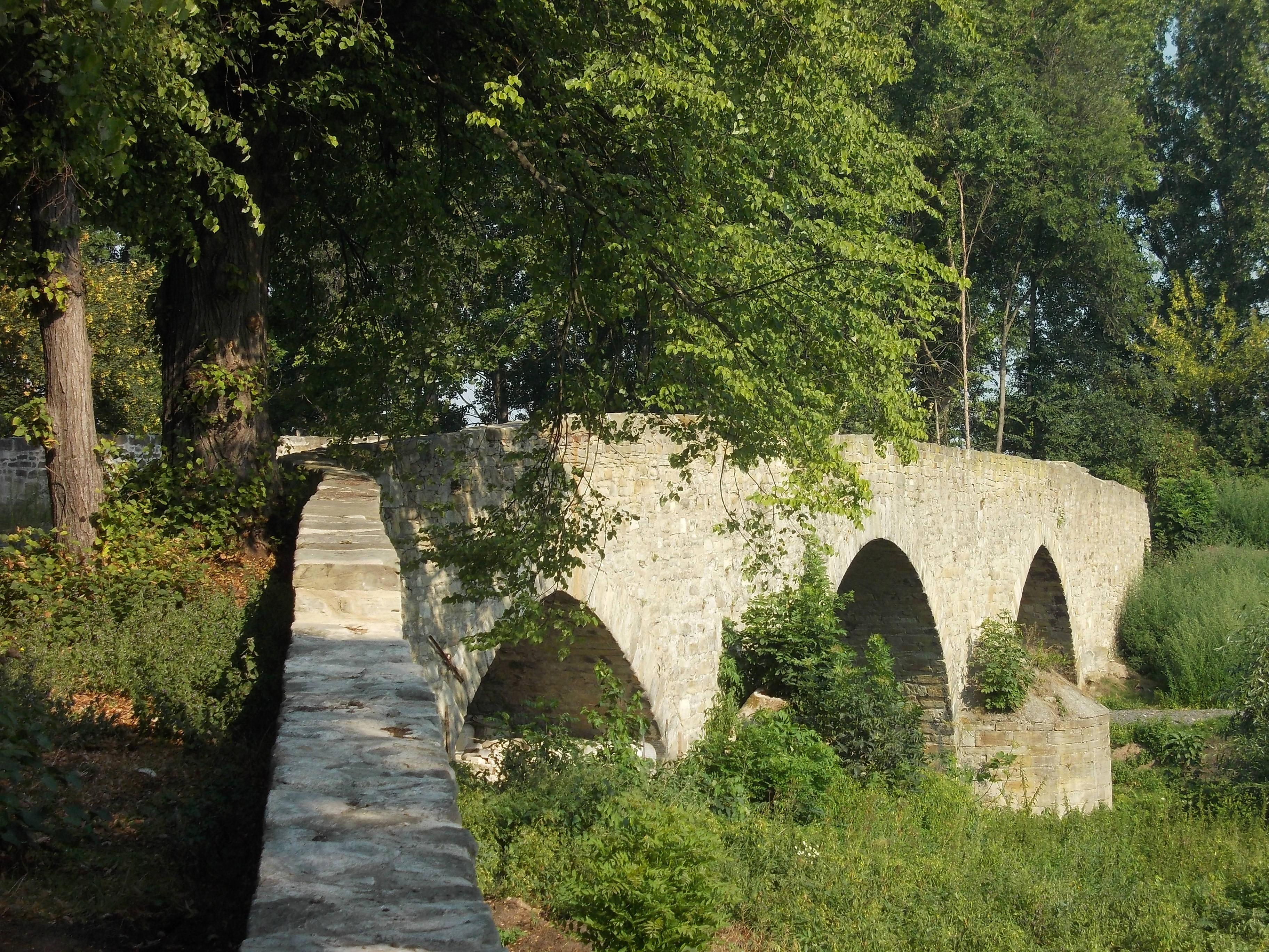 High Bridge of the old Leipzig-Merseburg road over the Old Saale near Merseburg (district: Saalekreis, Saxony-Anhalt)